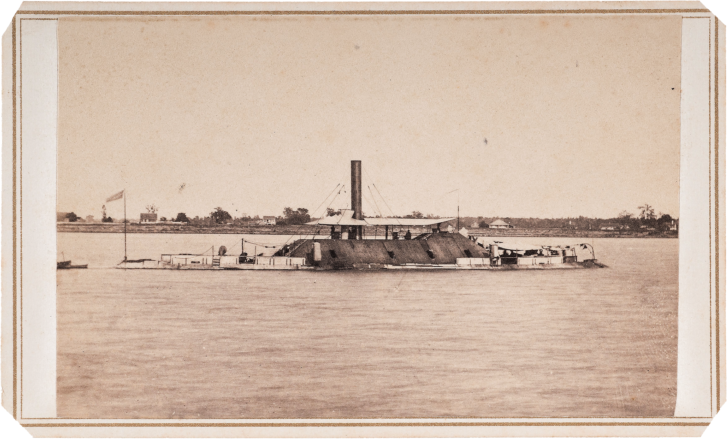 CDV by McPherson & Oliver, New Orleans, LA, with period ink inscription on verso: Ram "Tennessee" captured Mobile Bay August 5th 1864 / Fleet of Rear Admiral D.G. Farragut.